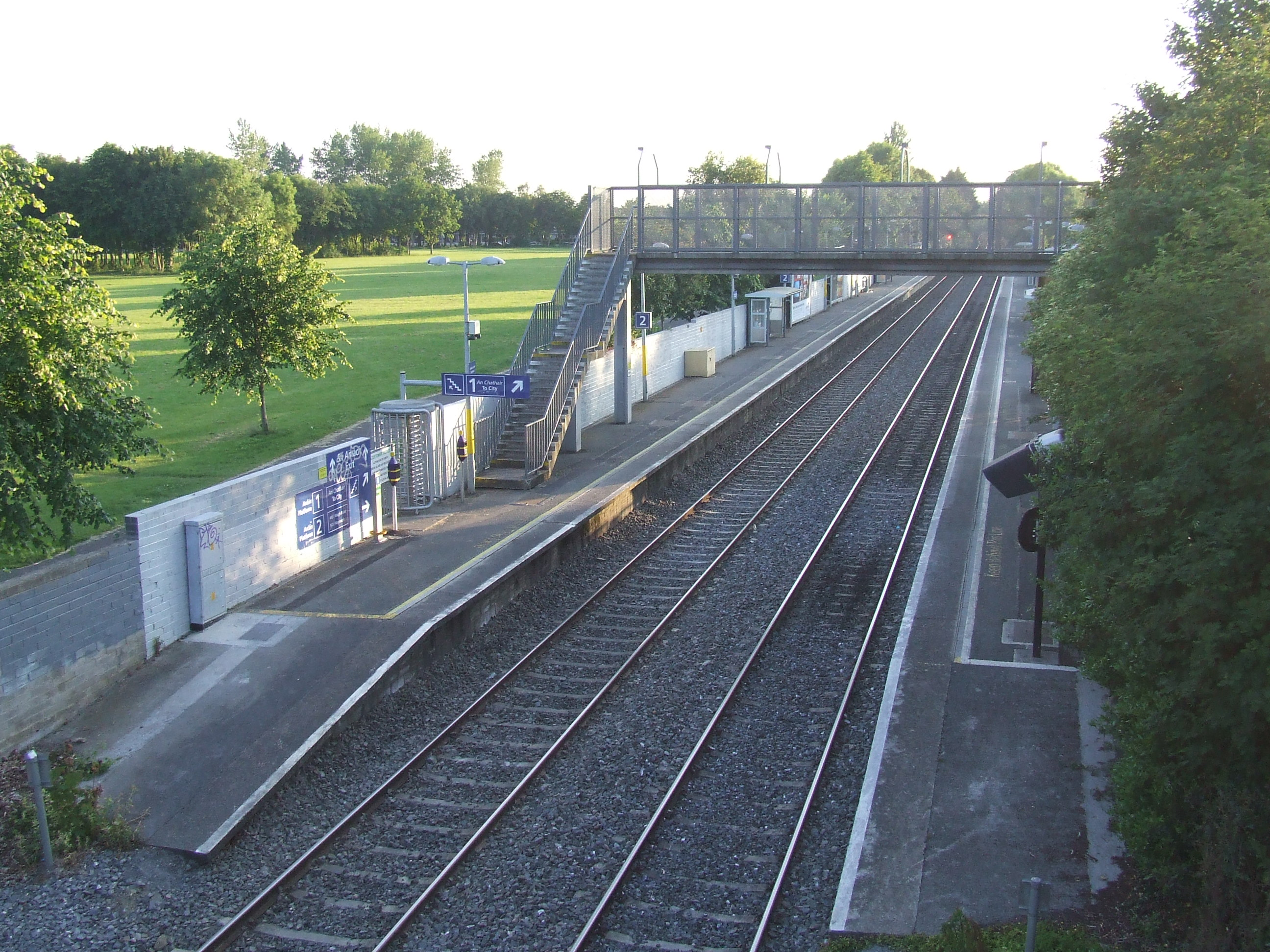 Looking west along the railway from the top of Granard Bridge near the 12th lock of the Royal Canal. Midsummer's Day, an hour before sunset, 2014.